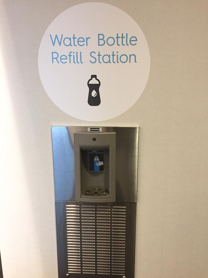 photograph of a modern water cooler with a bottle filling function